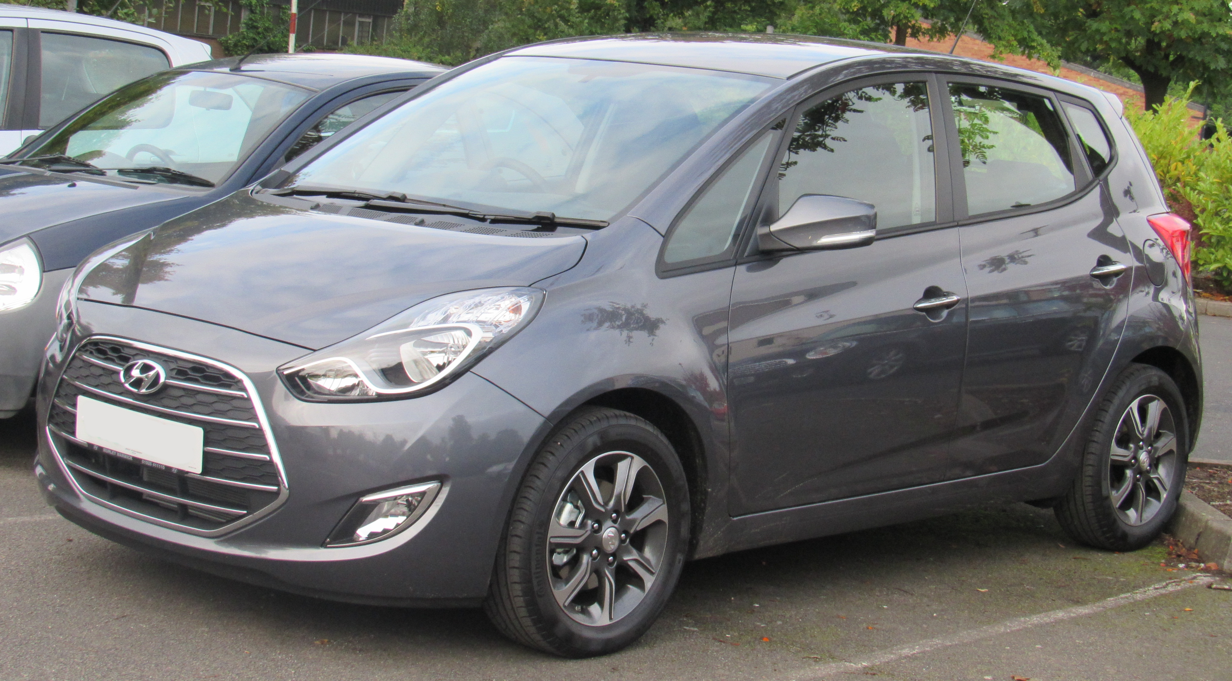 2017 Hyundai Ix20 SE 1.4 Taken in Leamington Spa